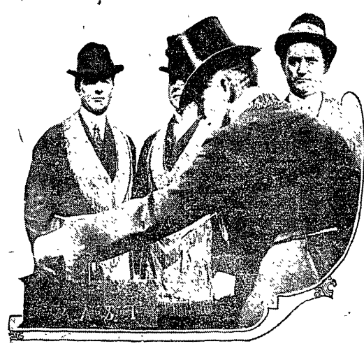 Photograph from Los Angeles Times showing dignitaries laying a cornerstone at a new Masonic temple in Westlake, California, November 14, 1914. They were Benjamin F. Bledsoe, grand master of the Grand Lodge of California, Grand Junior Warden William R. Hervey (left) and acting Grand Treasurer Champ S. Vance.